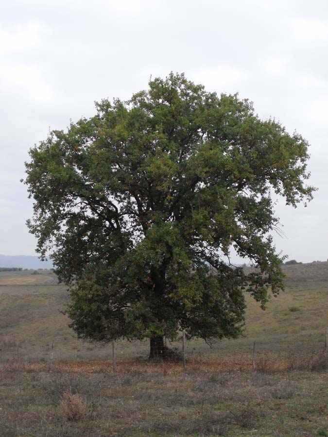 Quercus pubescens photographed in Scansano area (Tuscany, central Italy).